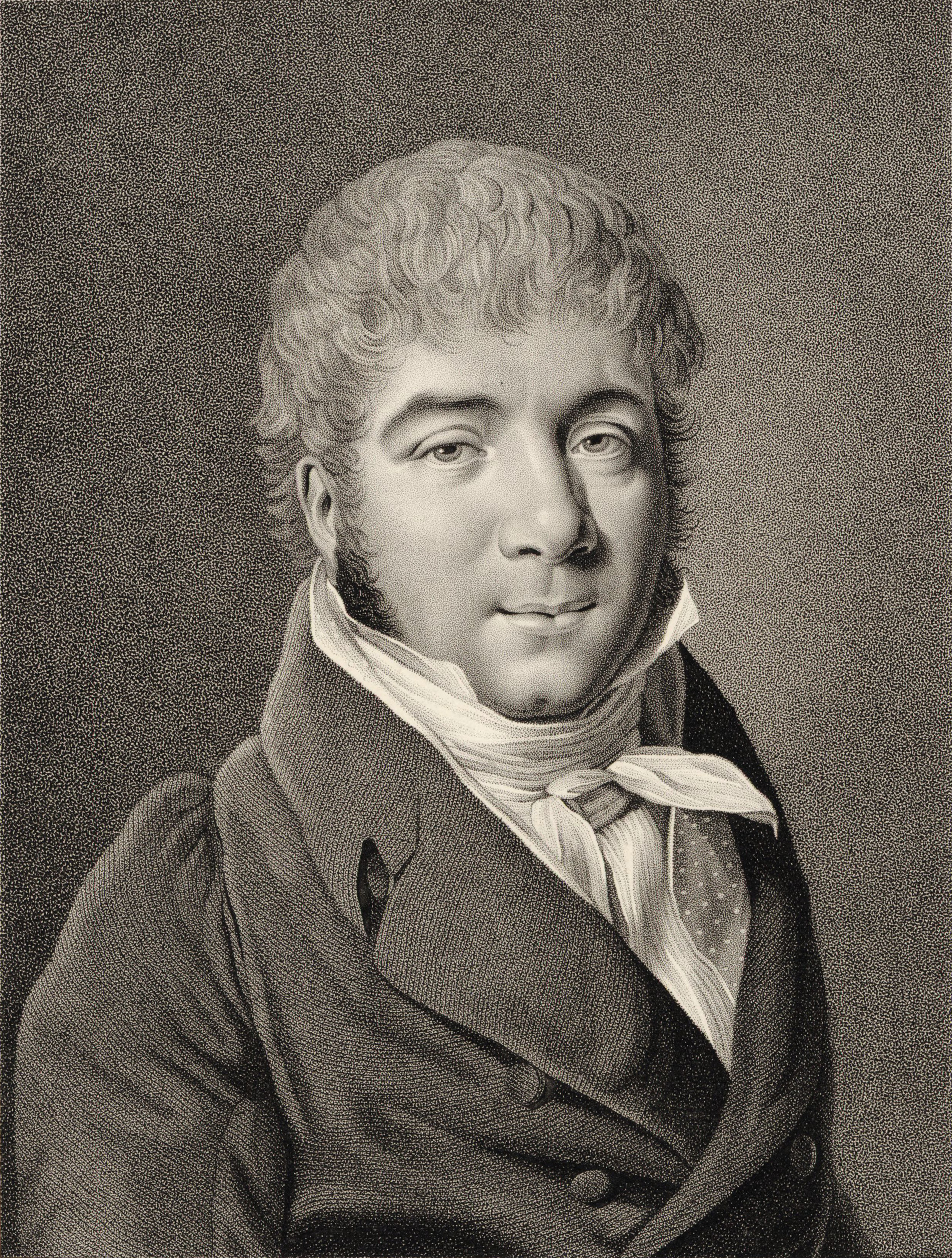 Depicted person: Jean-François Coulon